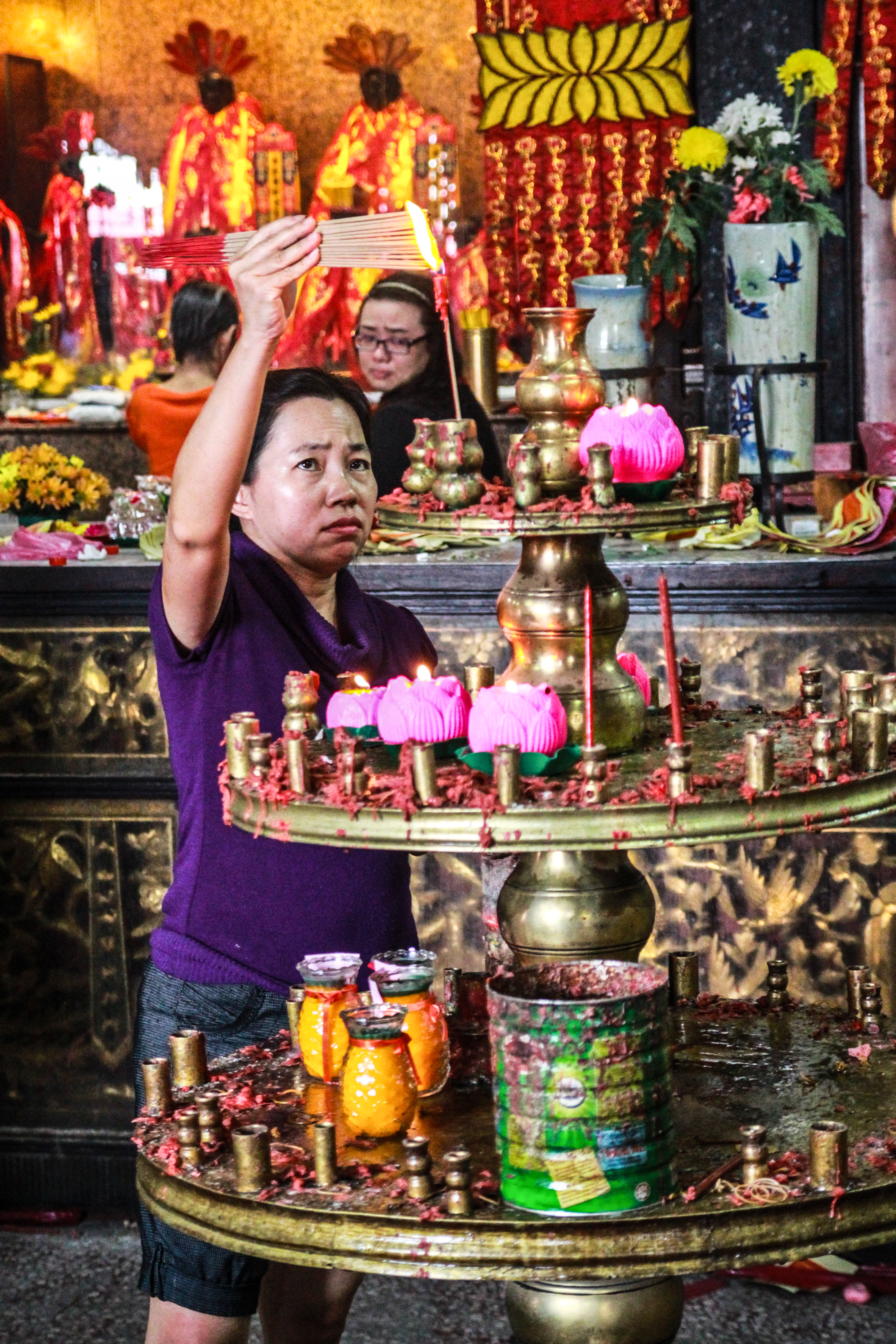 Entzündung von Räcuherstäbchen in einem Tempel in Georgetown, Malaysia